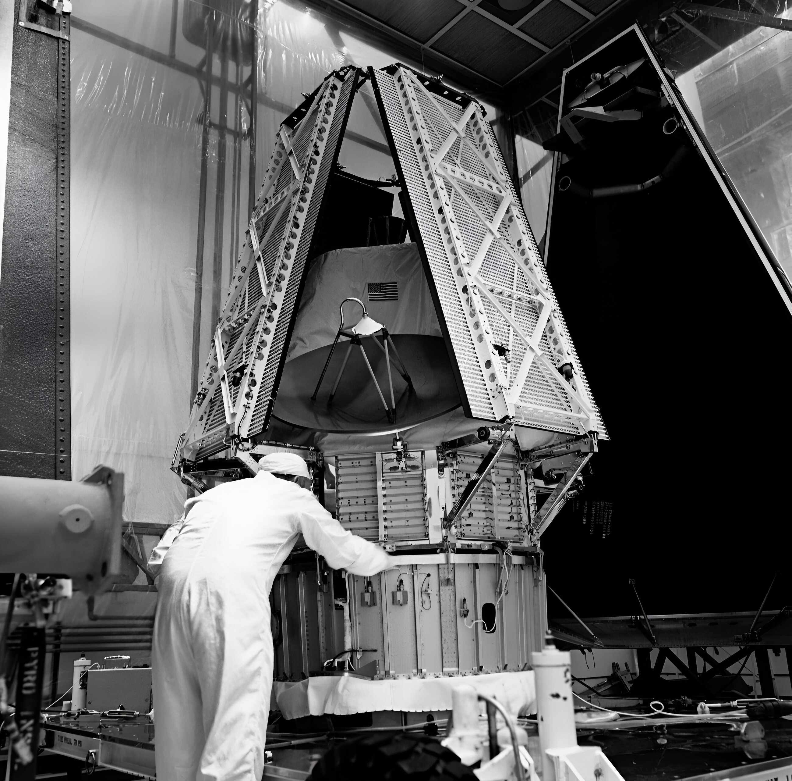 A technician checks the Mariner I spacecraft prior to its encapsulation for launch to Mars. An Atlas-Centaur rocket successfully launched the mars-bound spacecraft from Cape Kennedy at 6:23 p.m. EDT, May 30, 1971. Designated Mariner 9 following launch, the probe will arrive at Mars in mid-November. It will transmit scientific data about that planet's surface and atmosphere.